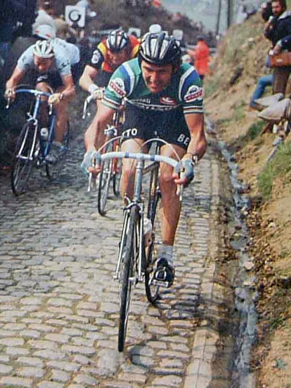 Roger de Vlaeminck at Tour of Flanders (Koppenberg), picture taken by Mick Knapton. Color correction by Tvpm.